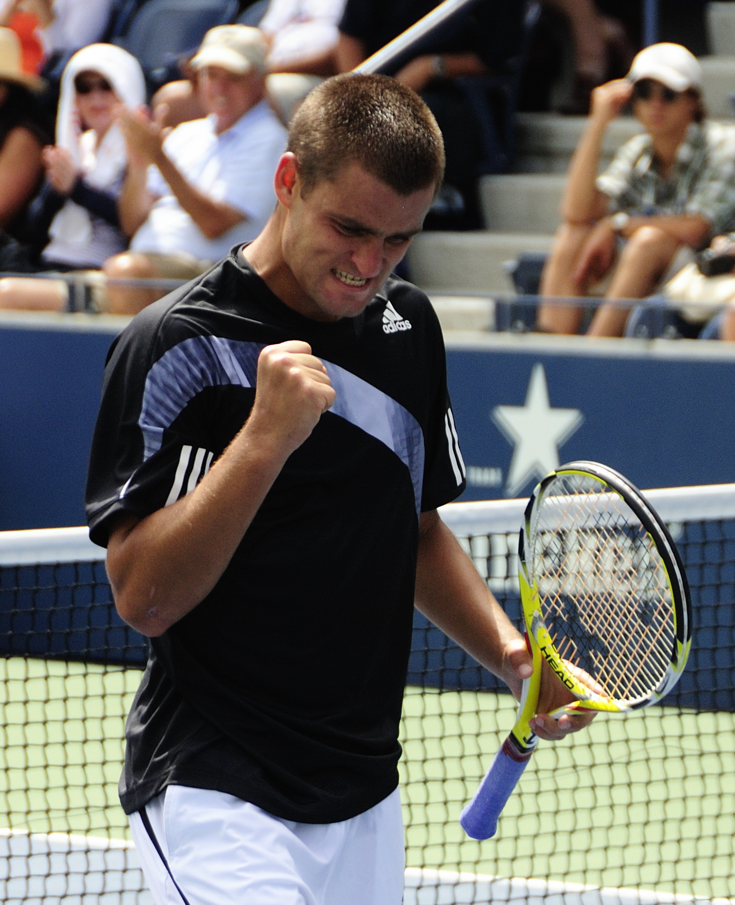 Mikhail Youzhny at the 2009 US Open